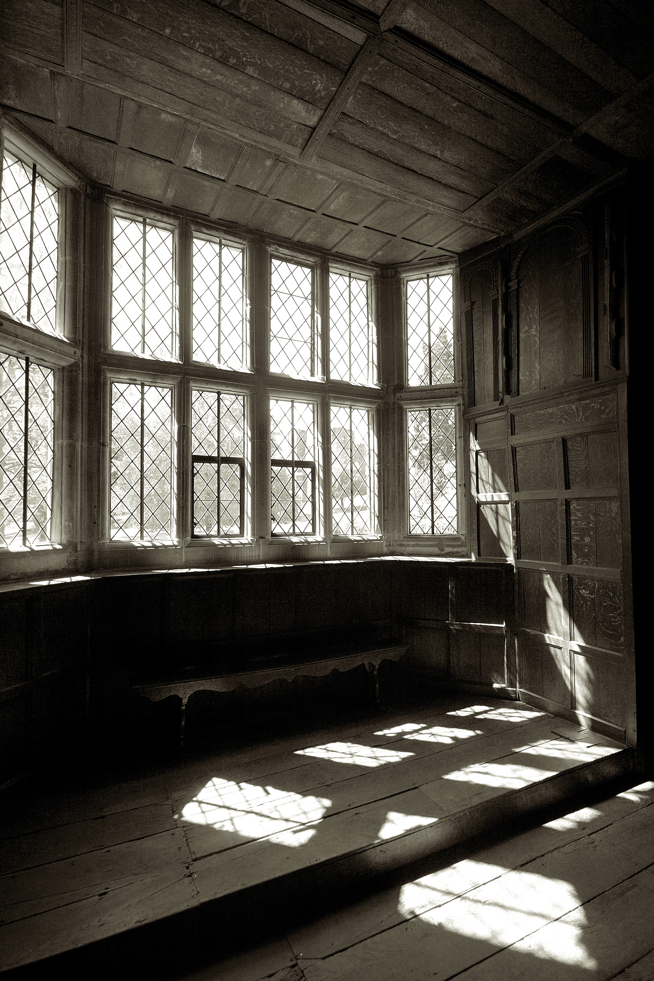 The inside window of Leicester's gatehouse at Kenilworth Castle